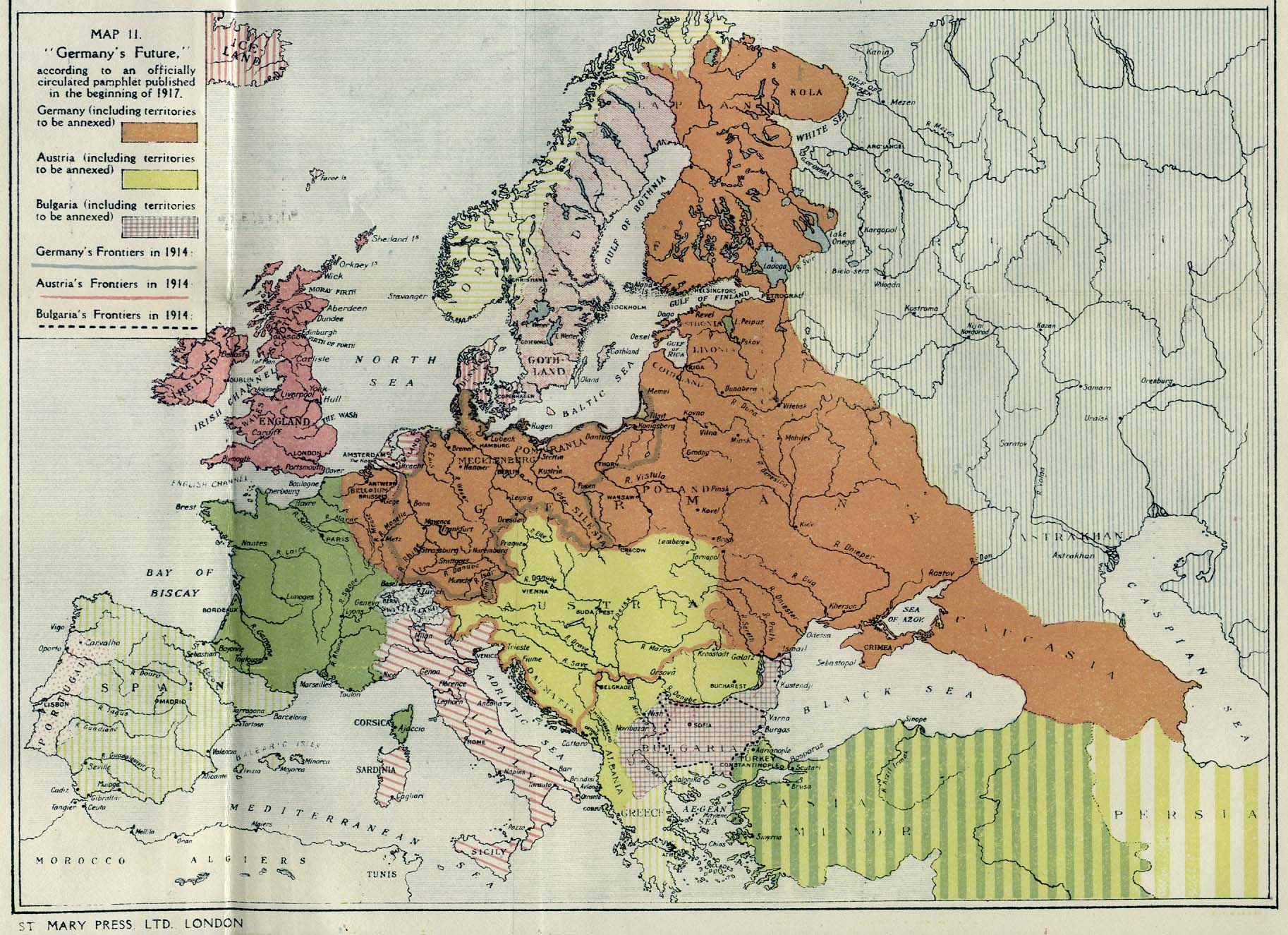 "Germany's Future" according to an officially circulated allied war propaganda pamphlet published in the beginning of 1917.